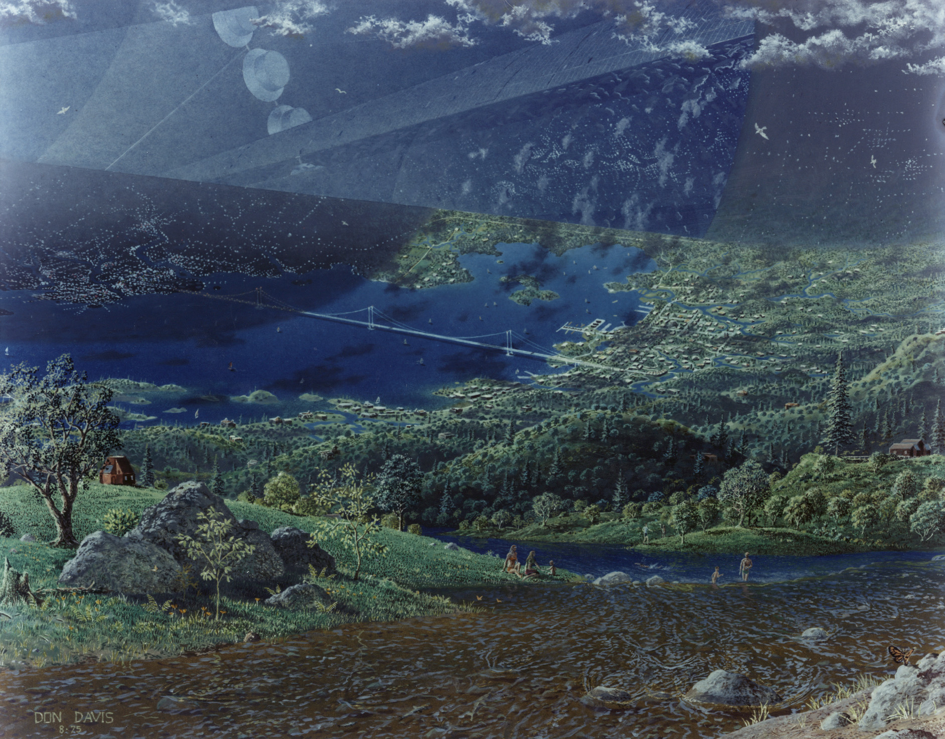 Interior view of an O'Neill cylinder space colony, "Endcap view with suspension bridge". NASA ID number AC75-1883.